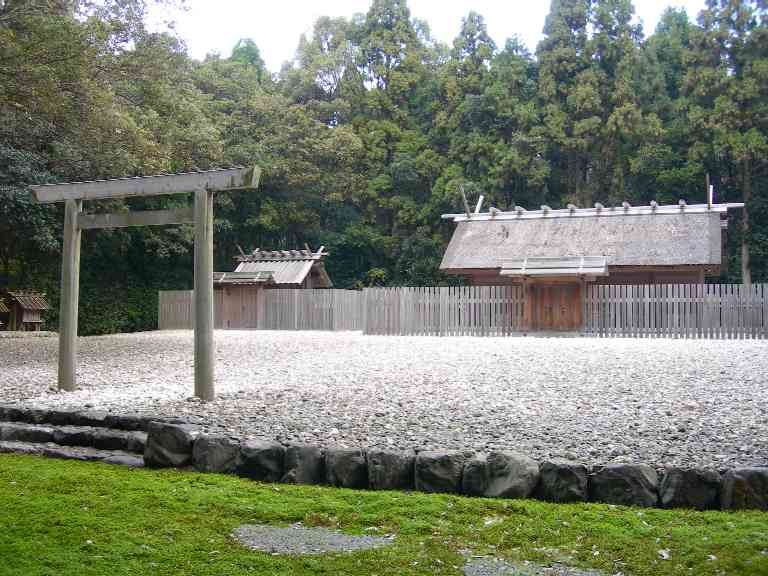 Kan-hatori-hatadono-jinja is a facility for weaving sacred silk for Ise Shrine at Ohgaito-cho, Matsusaka city, Mie prefecture Japan.